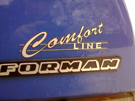 Škoda Favorit Comfort Line logo